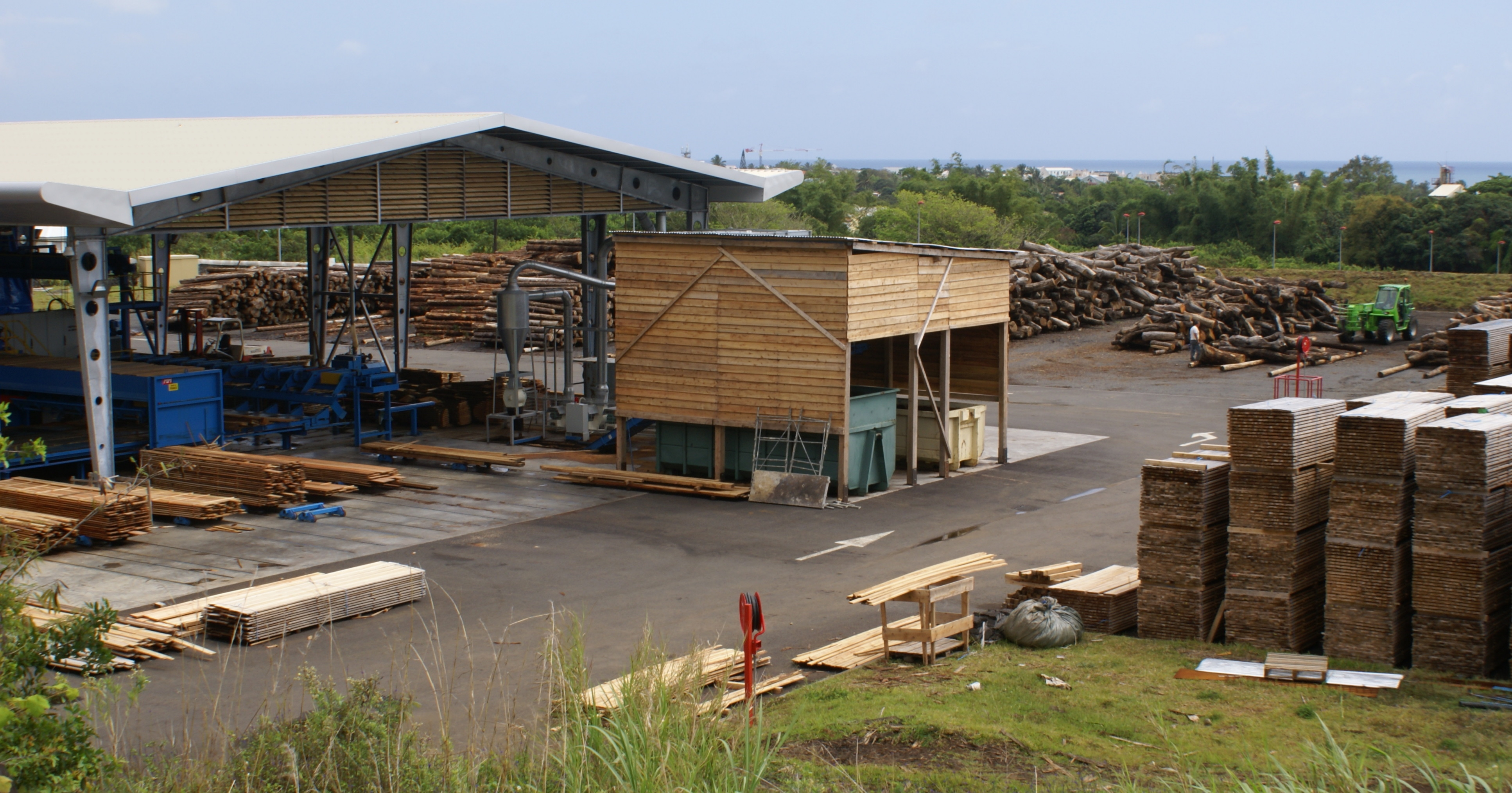 Sawmill Sciages de Bourbon on Réunion island